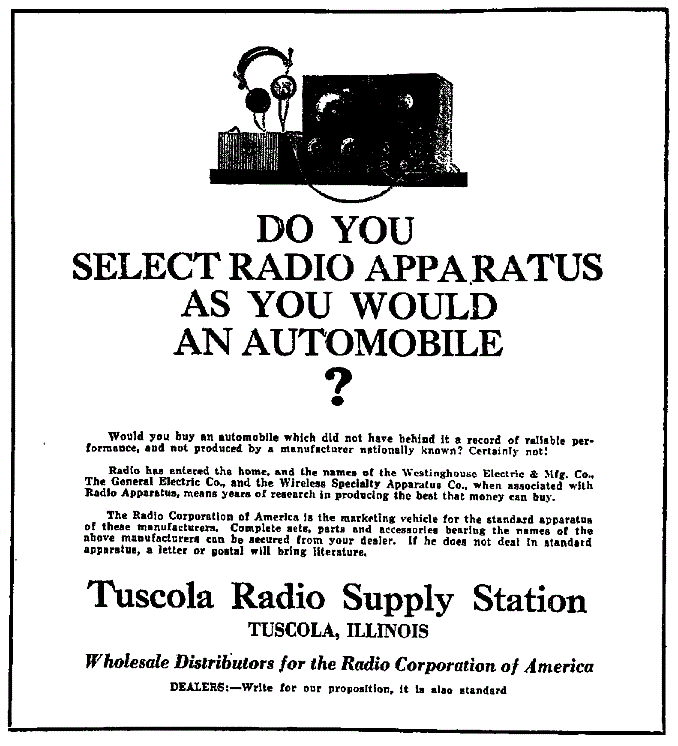 The Tuscola Radio Supply Station company was formed in 1921 to conduct broadcasts made over radio station 9JT (later WDZ) and to sell and install radio receivers